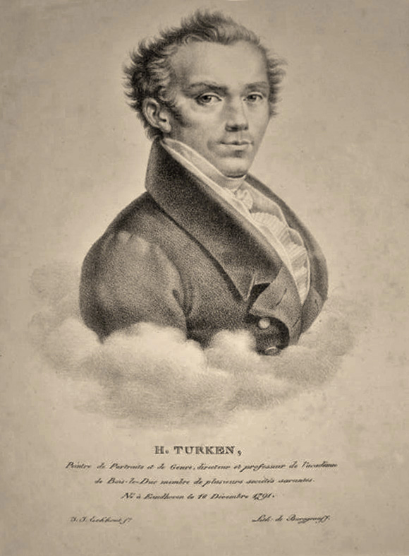 Portrait of Henricus Turken